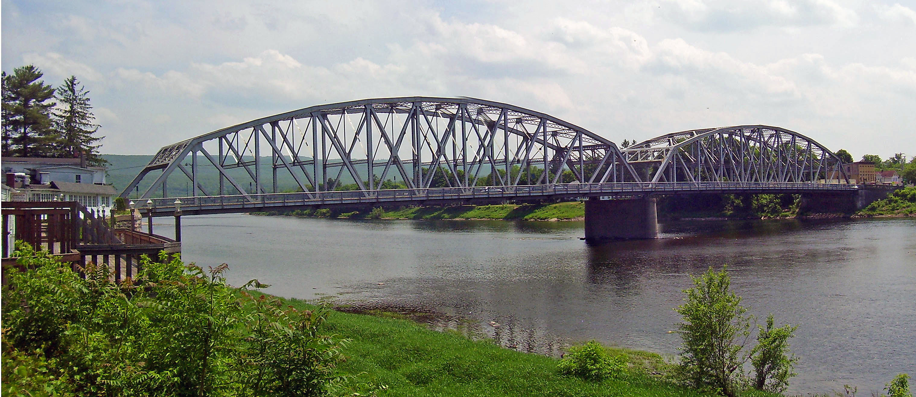 Stitched panorama created from two images, both taken from the Port Jervis side, 2007-05-30 by Daniel Case